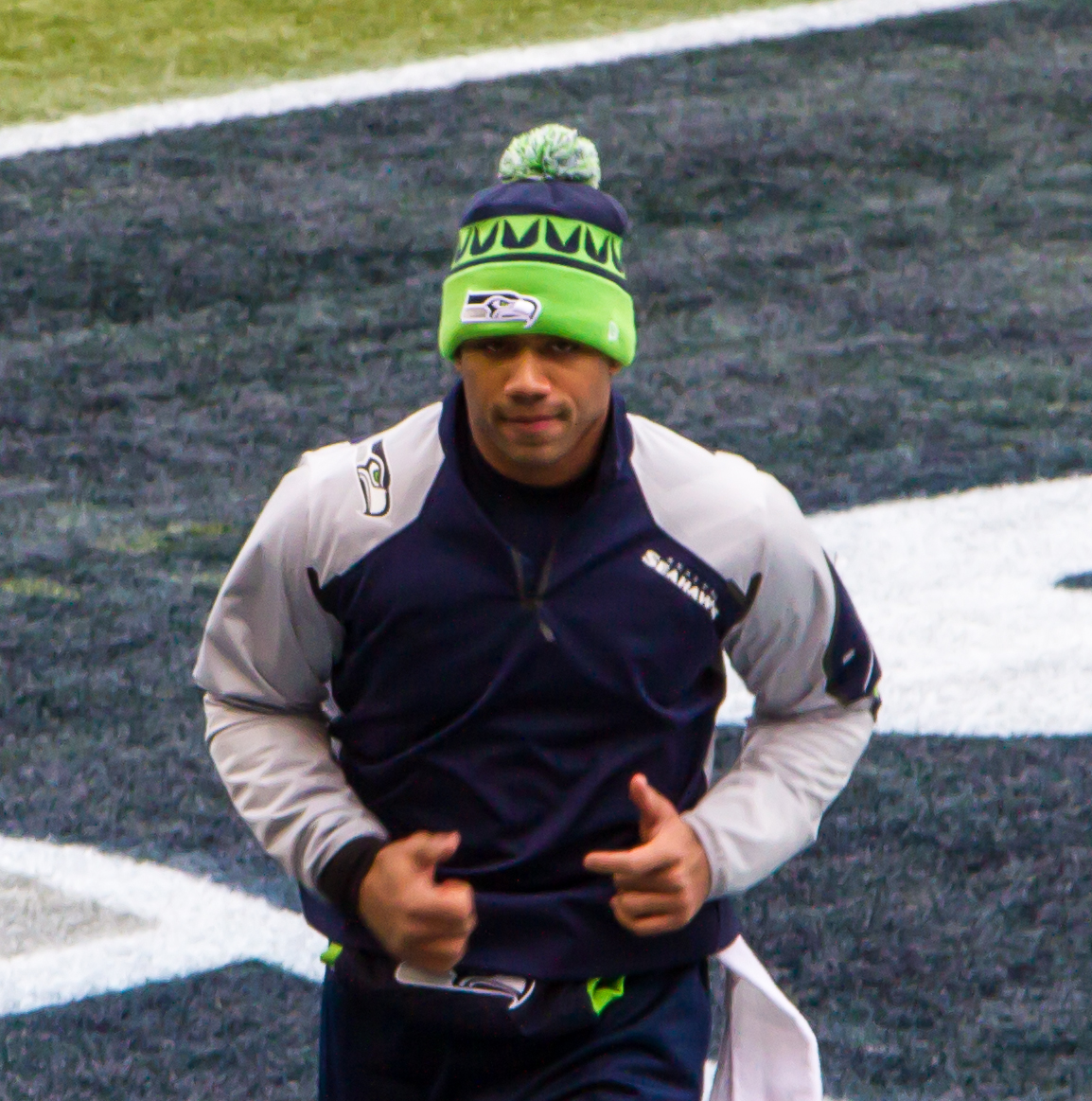 Seattle Seahawks quarterback Russell Wilson warms up before a 2013 game.